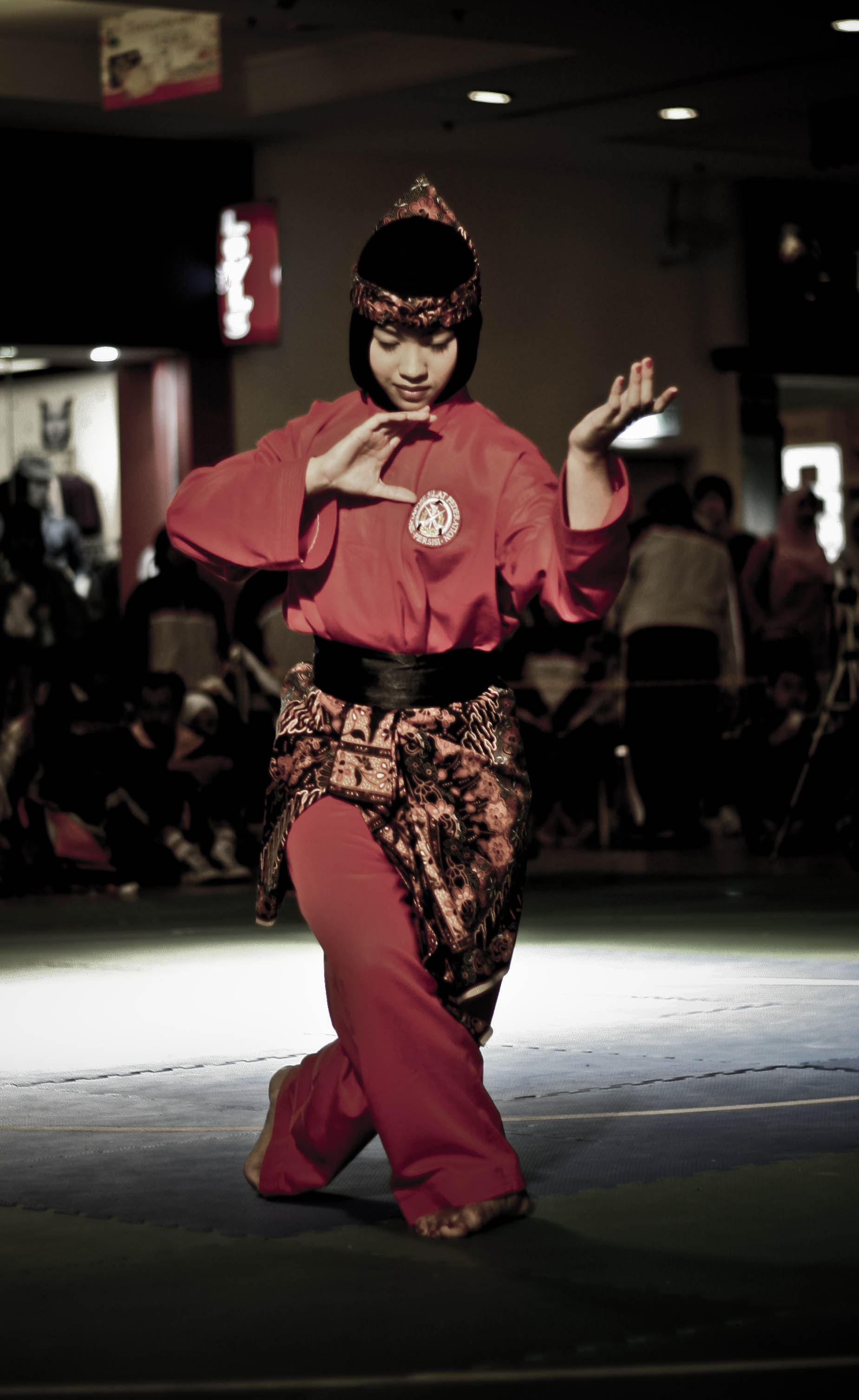 A Singaporean female pesilat (exponent of silat).